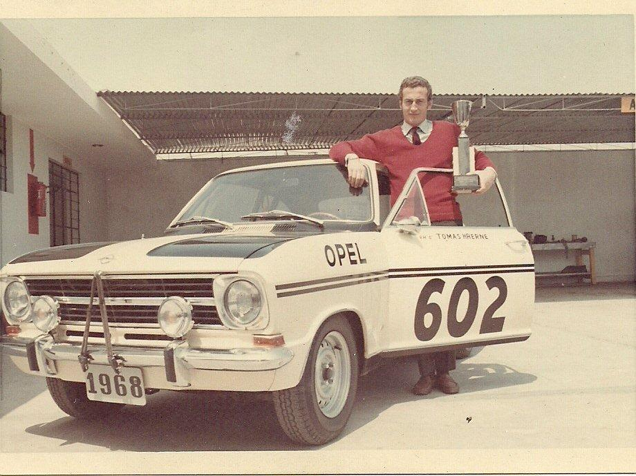 Thomas hearne